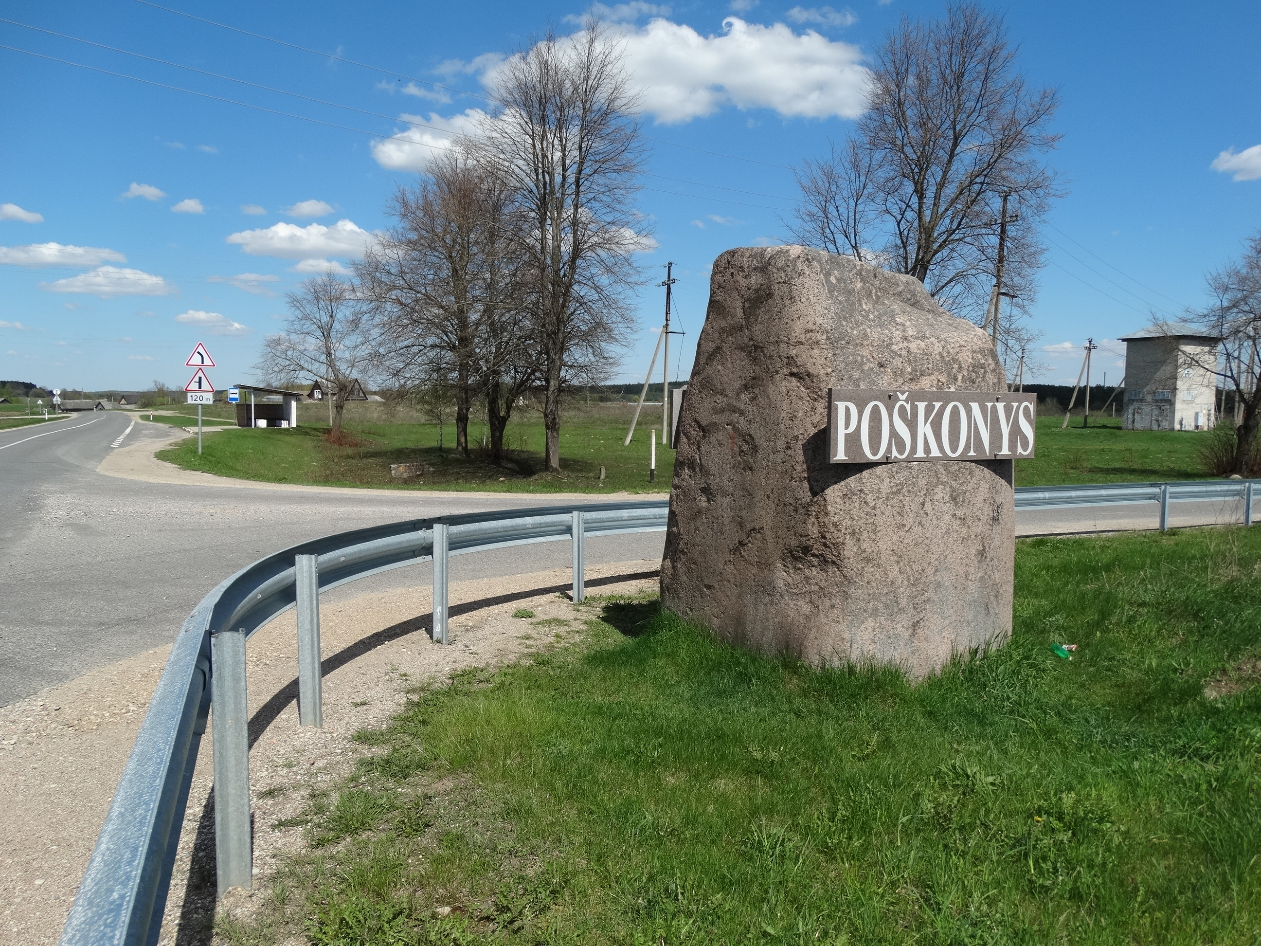 Stone in Poškonys, Šalčininkai District, Lithuania